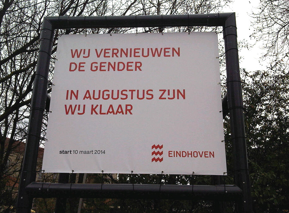 City of Eindhoven billboard announcing work for the Nieuwe Gender project near the PSV stadium.